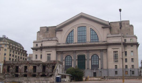 Building: Apostadero y Atarazana - Location: Ciudad Vieja, Montevideo, Uruguay